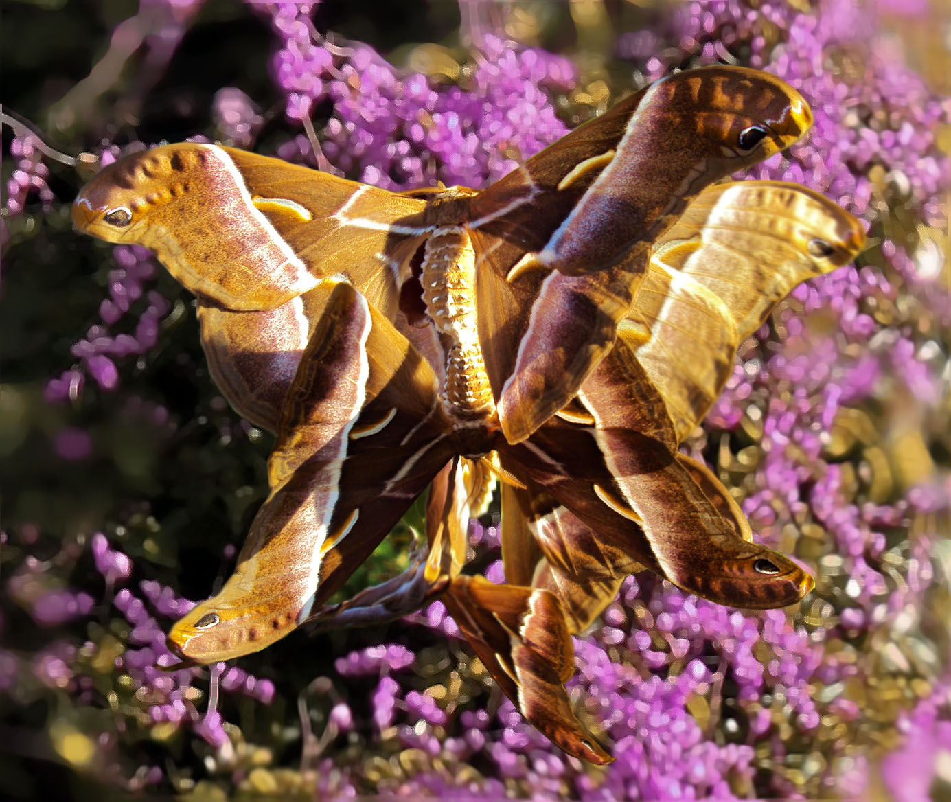 Two pairs of mating Ailanthus silkmoth.